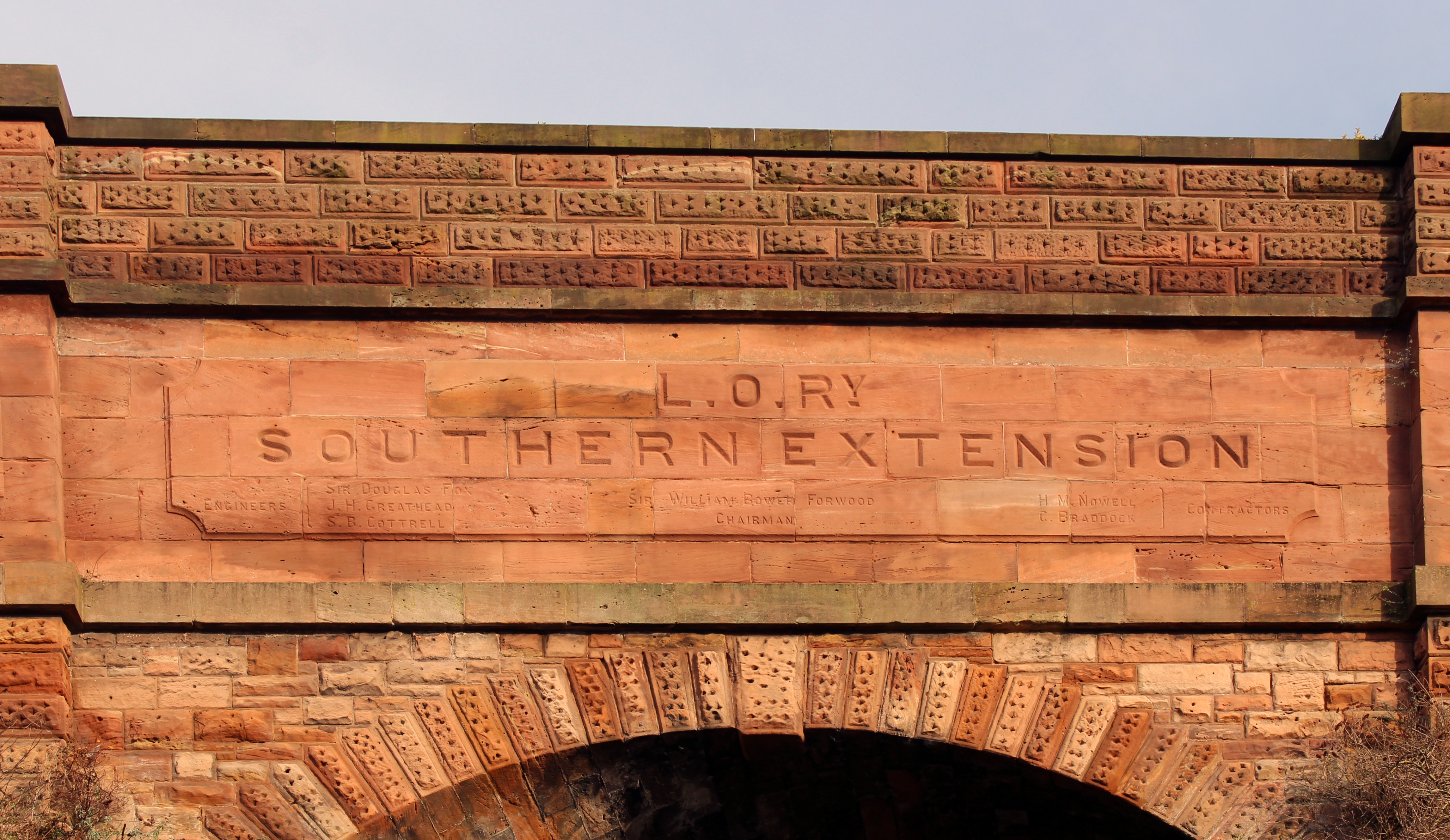 CU of inscription